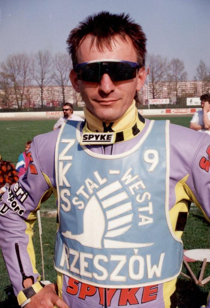 Zoltan Adorjan